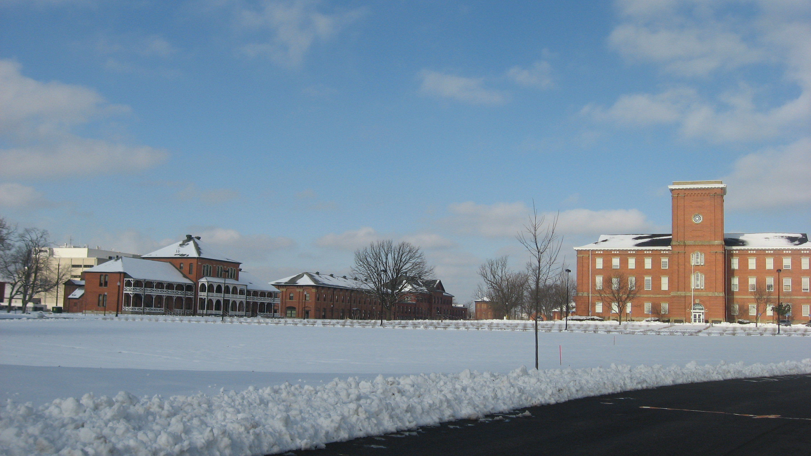 Buildings on the grounds of Fort Hayes, seen from the old parade grounds, in Columbus, Ohio, United States. The snow is newly fallen as a result of the December 25–28, 2012 North American blizzard. Fort Hayes has been declared a historic district and listed on the National Register of Historic Places.